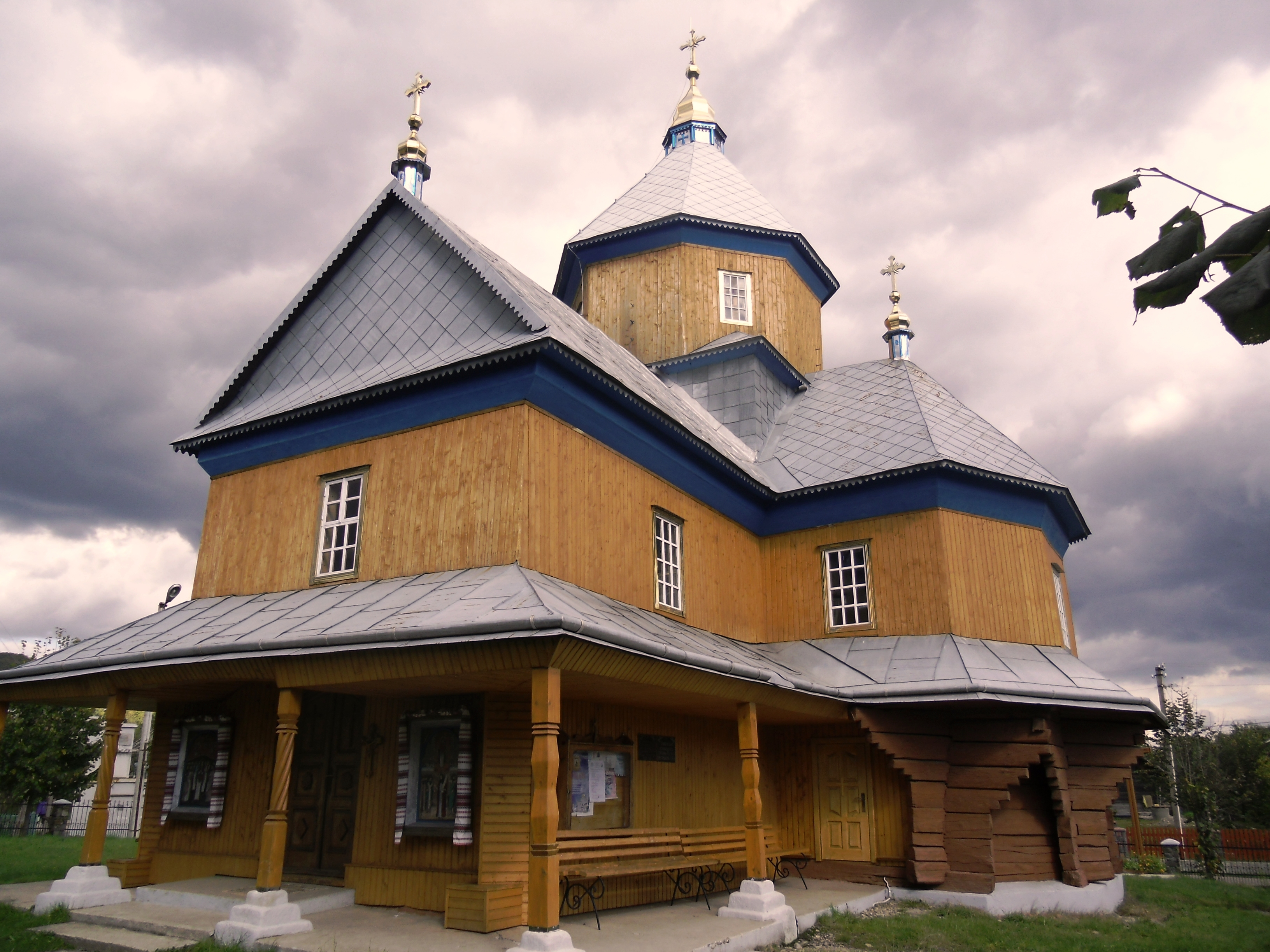 Assumption of the Virgin Mary church (Nyzhnye Synyovydne village, Lviv region)